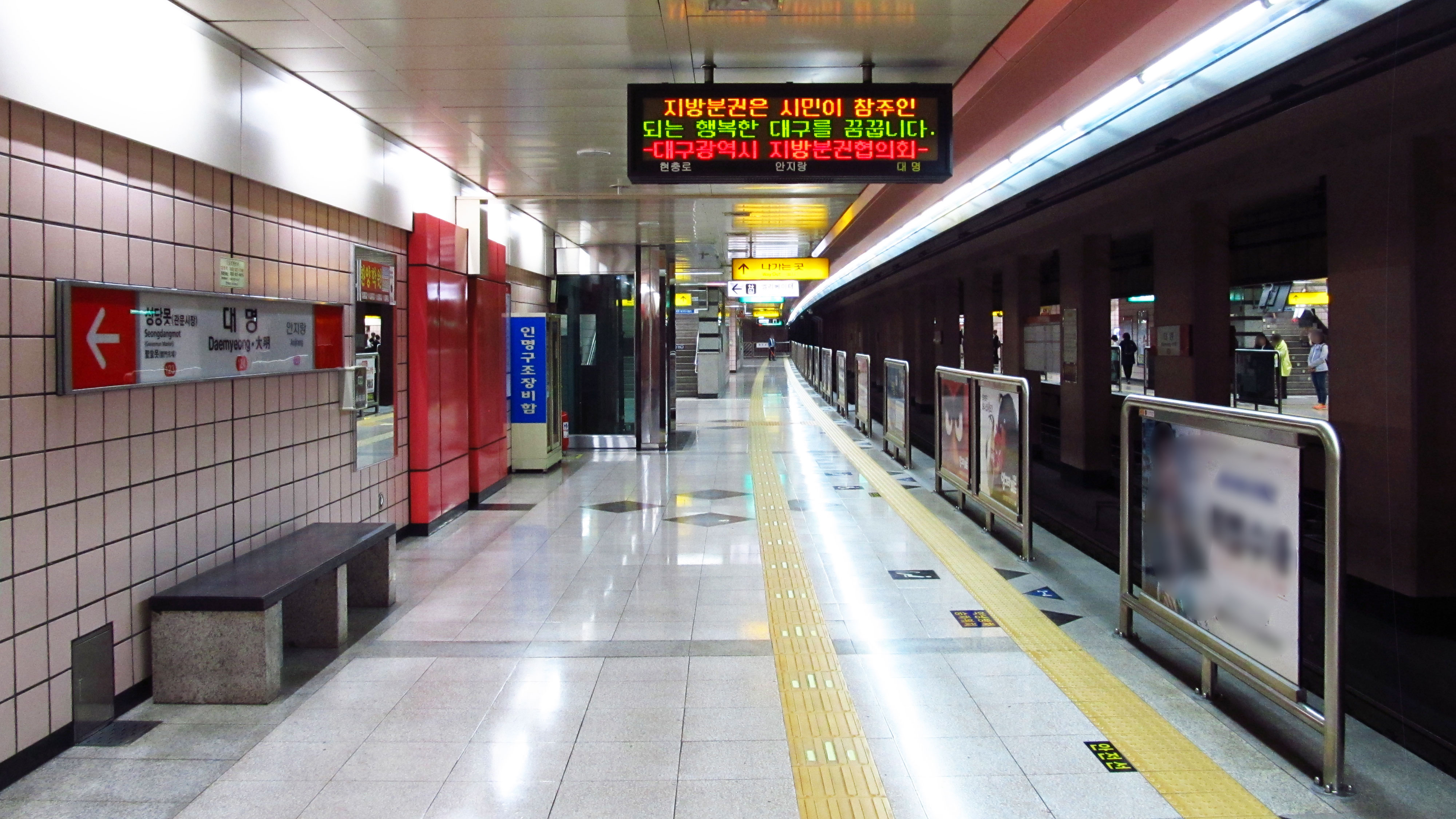 The Seolhwa-Myeonggok-bound platform at Daemyeong Station on the Daegu Metro Line 1 in Nam-gu, Daegu, Republic of Korea(South Korea)